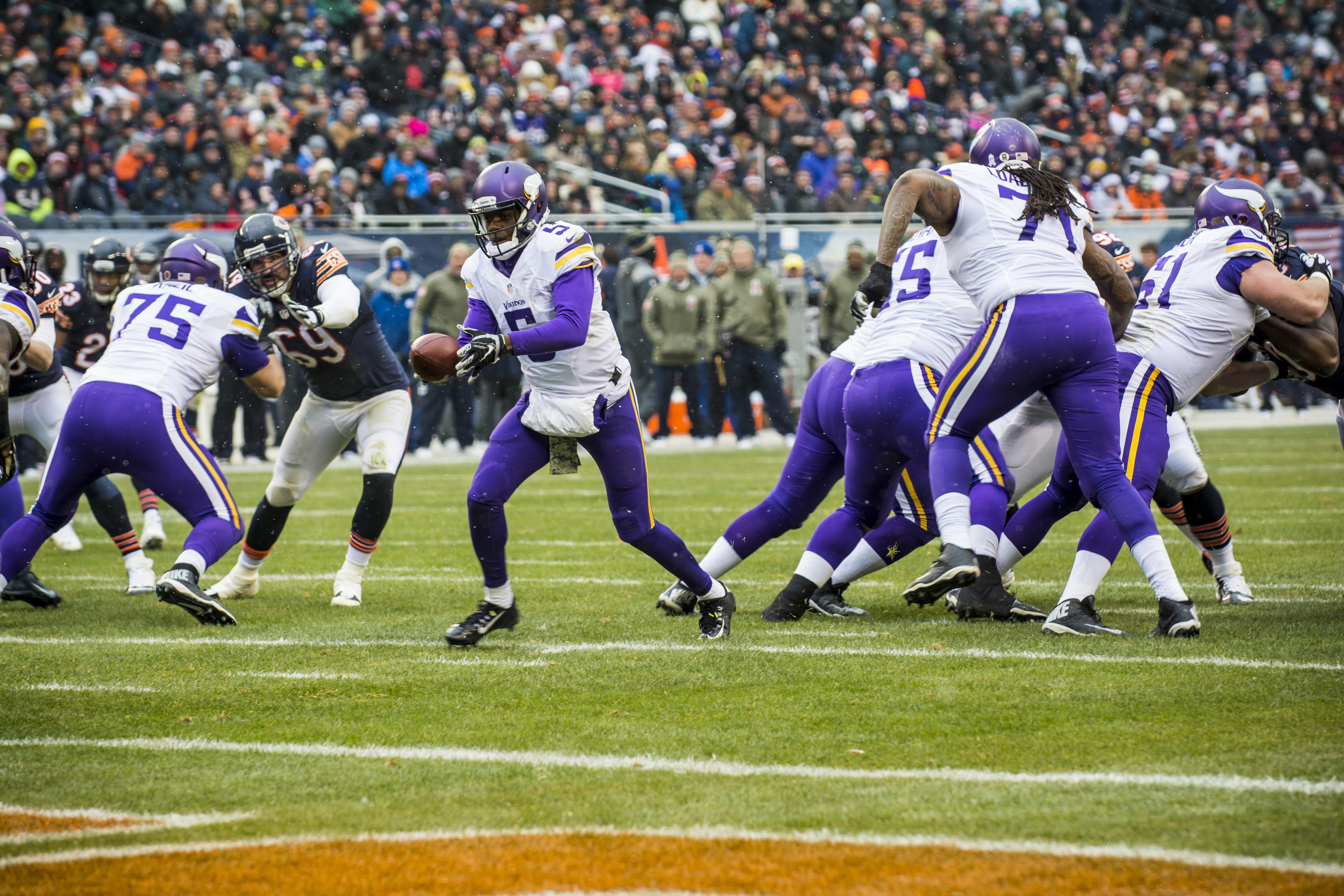 Vikings quarterback Teddy Bridgewater gives the ball to running back Jerick McKinnon during the match at Chicago Bears